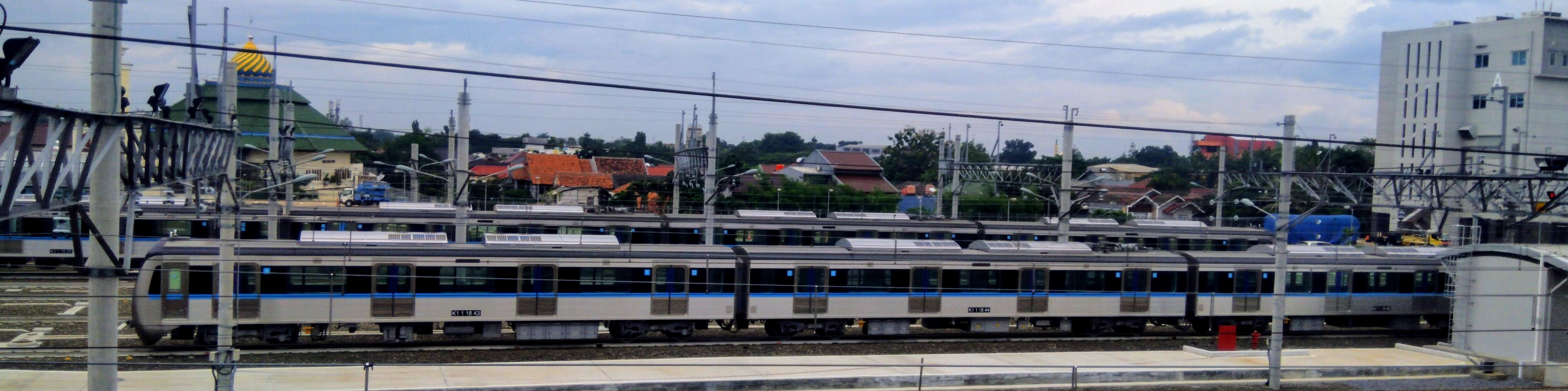 Jakarta MRT train